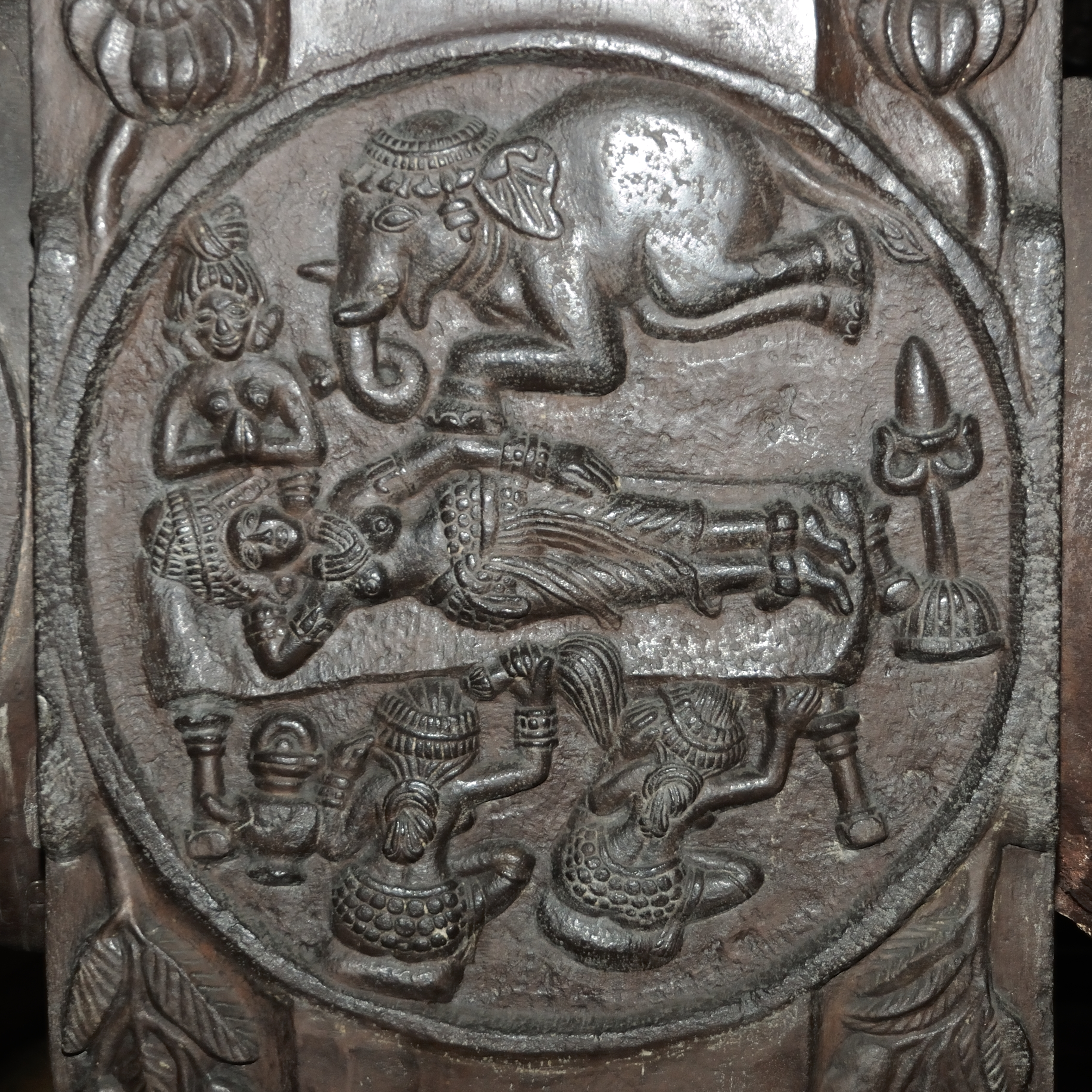 Photographed at the Bharhut Gallery of Indian Museum, Kolkata.